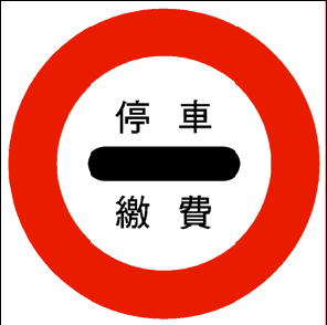 Taiwanese Regulatory Sign R5: Stop for Toll/Toll Booth